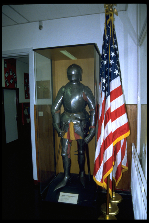 Mascot of Bonn American High School, Plittersdorf, Bad Godesberg, Bonn, Federal Republic of Germany, an original suit of armour